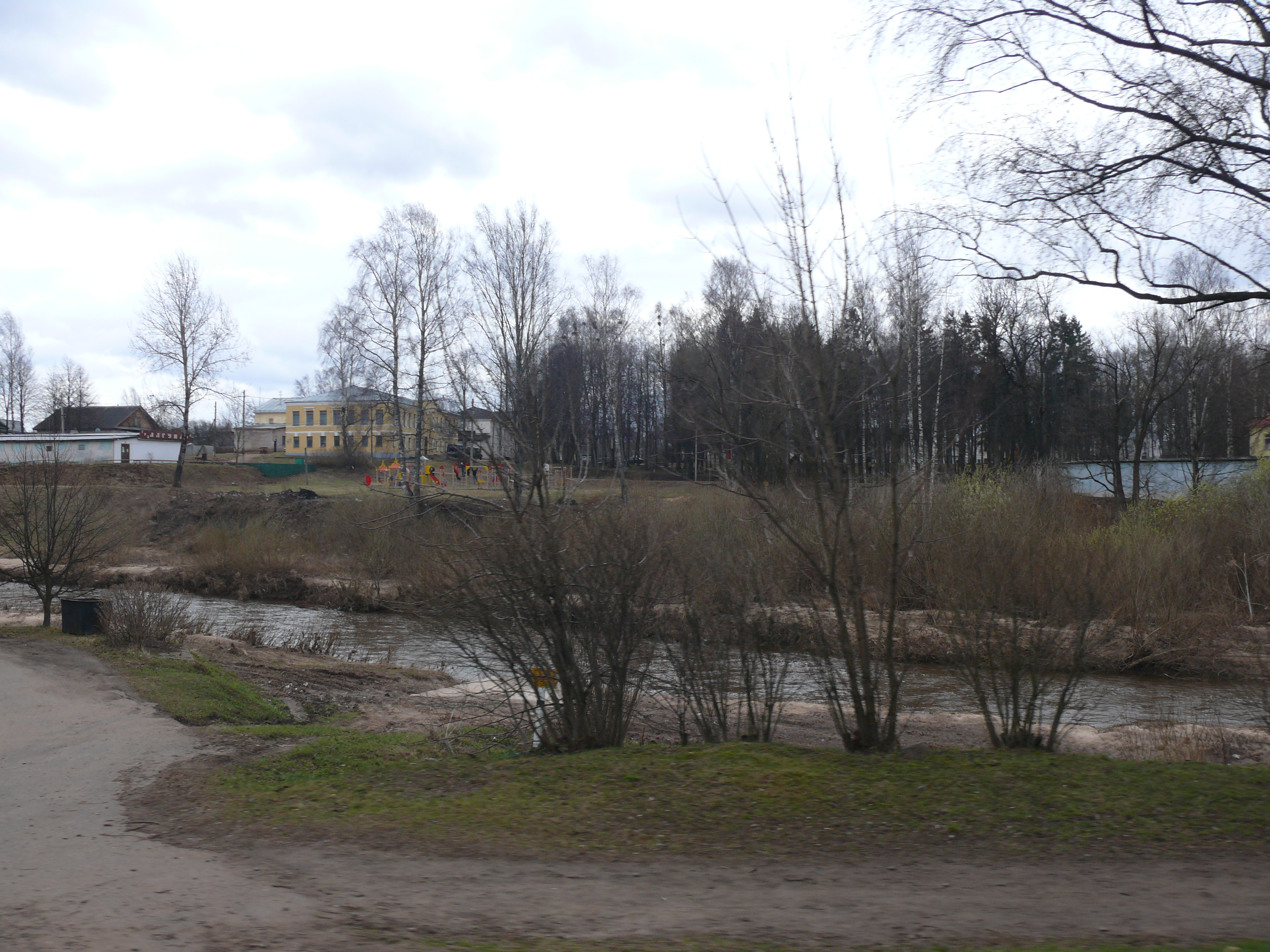 Yavon river in Demyansk. Novgorod oblast, Russia